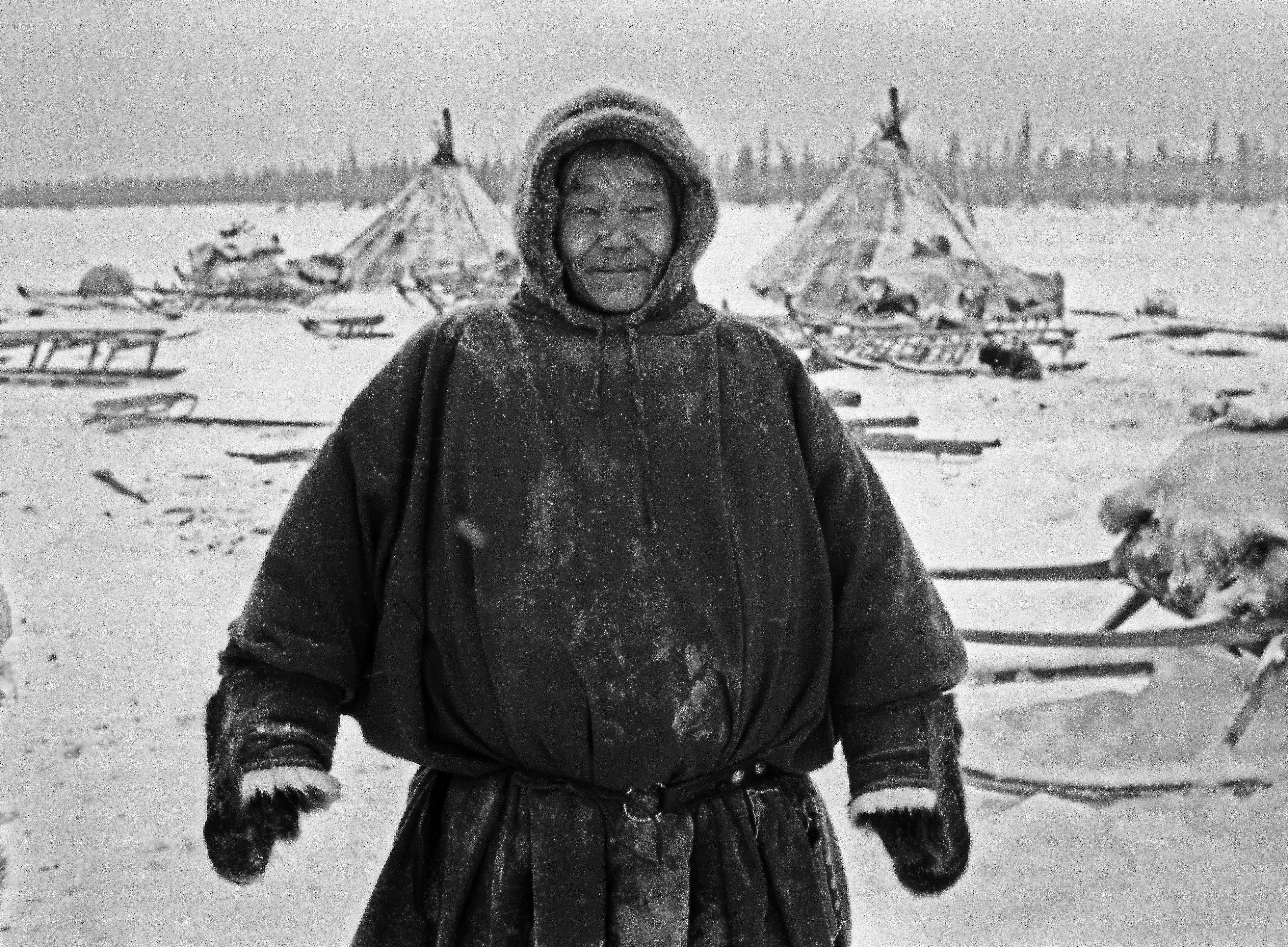 Nenets host, Yamal 1982